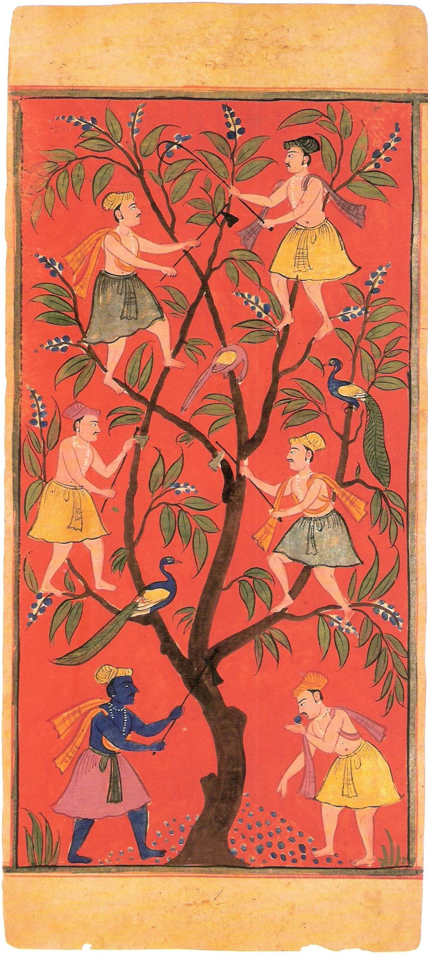 Folio form Samghanayanarayna loose leaf manuscript from Gujarat or Rajasthan.